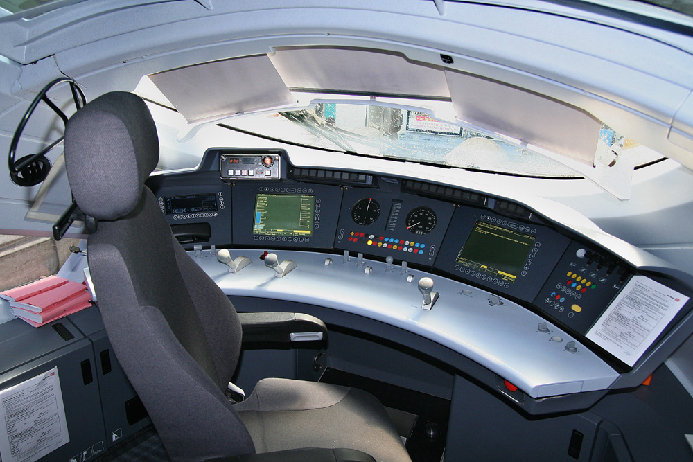 Driver's cab on the ICE 3MF.